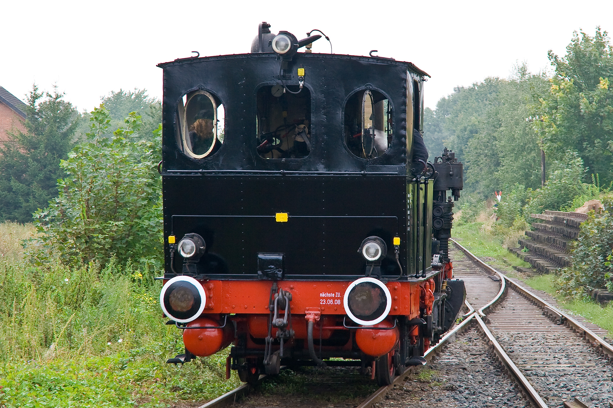 Tank locomotive Prussian T3 „Schunter“ of the Arbeitsgemeinschaft historische Eisenbahn e.V. (AHE) Almstedt-Segeste, Lower Saxony, Germany.